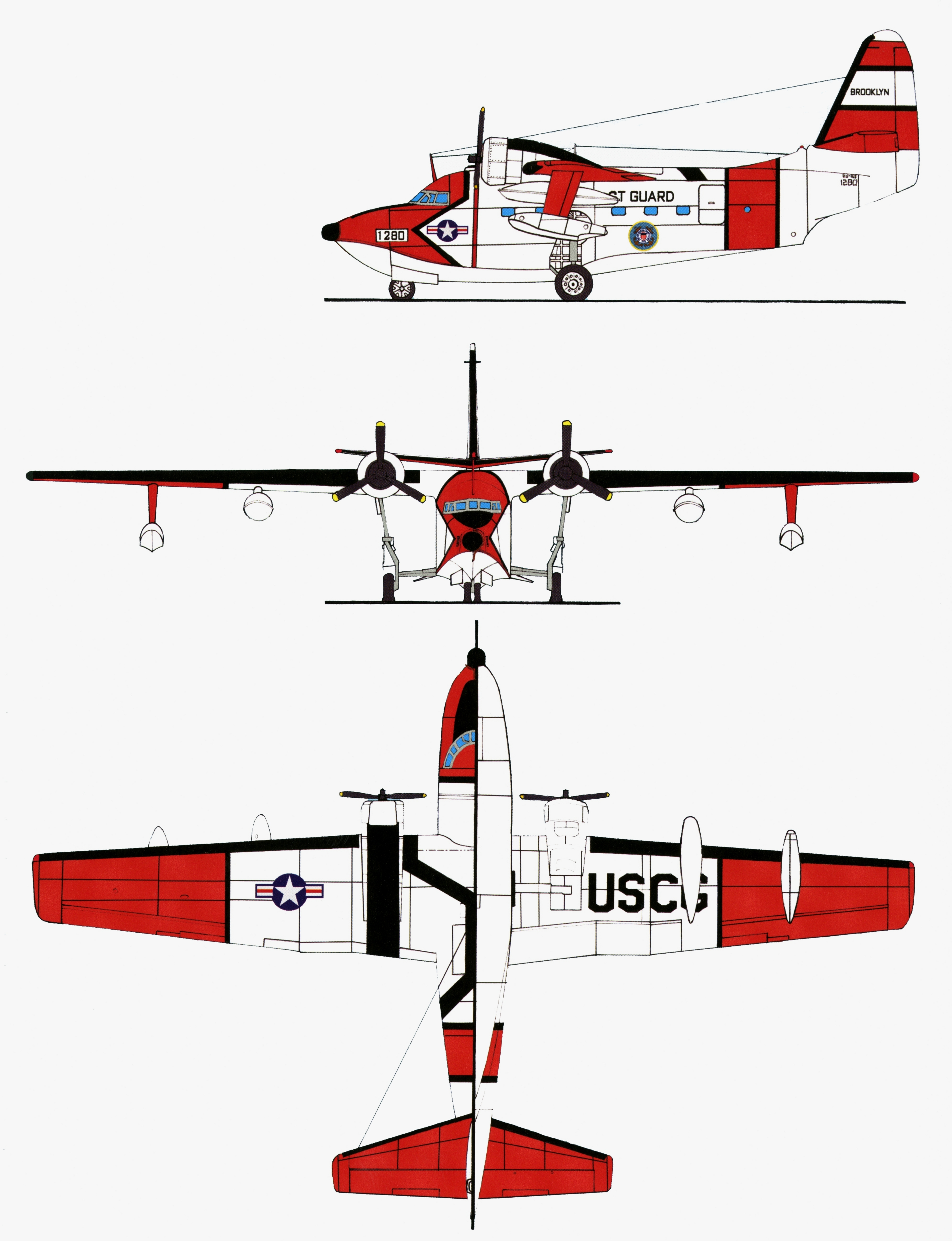 Coloured drawings for the U.S. Coast Guard Grumman HU-16E Albatross.